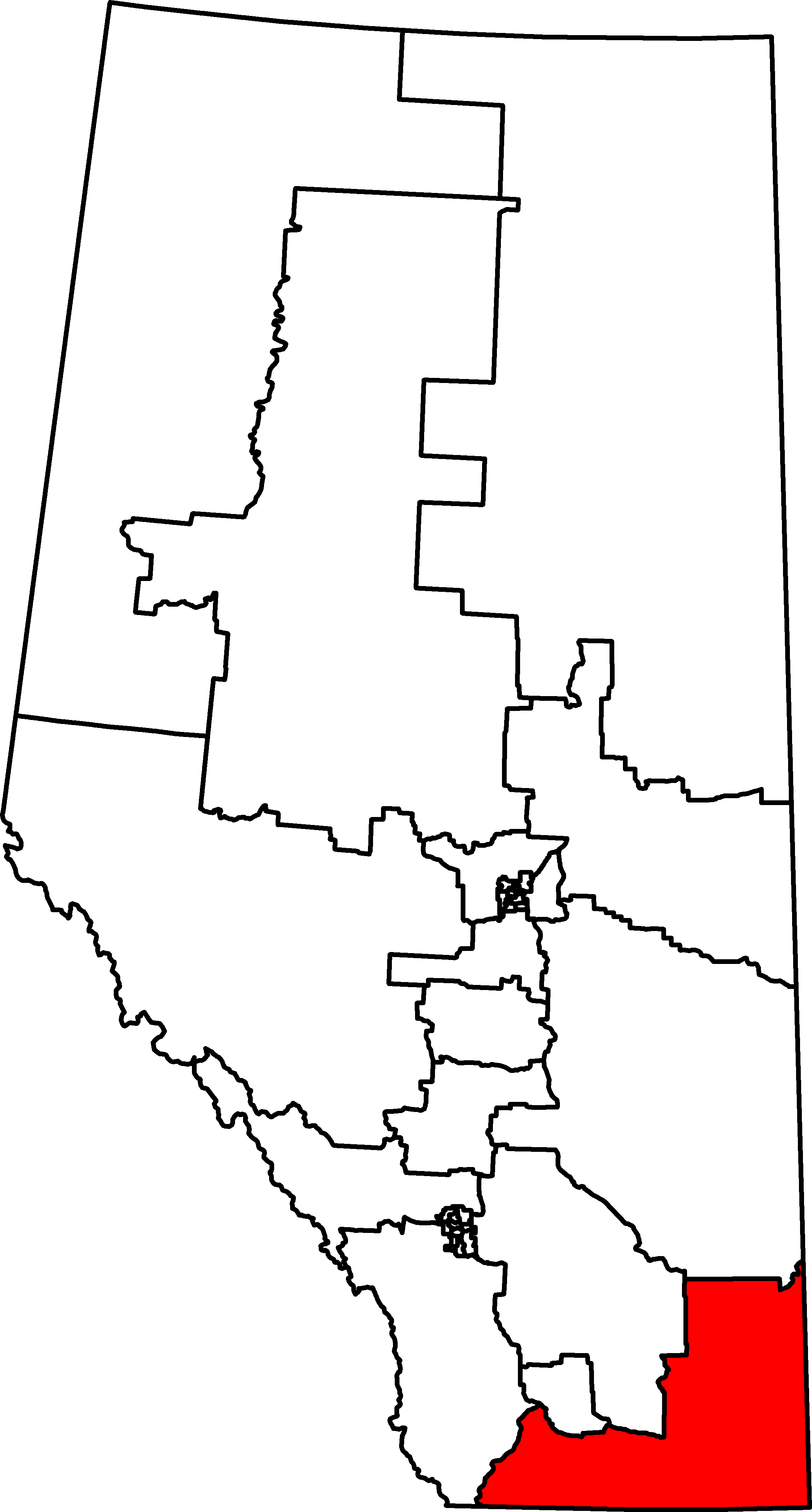 Federal Electoral District in Alberta, Canada as of the 2013 Representation Order.